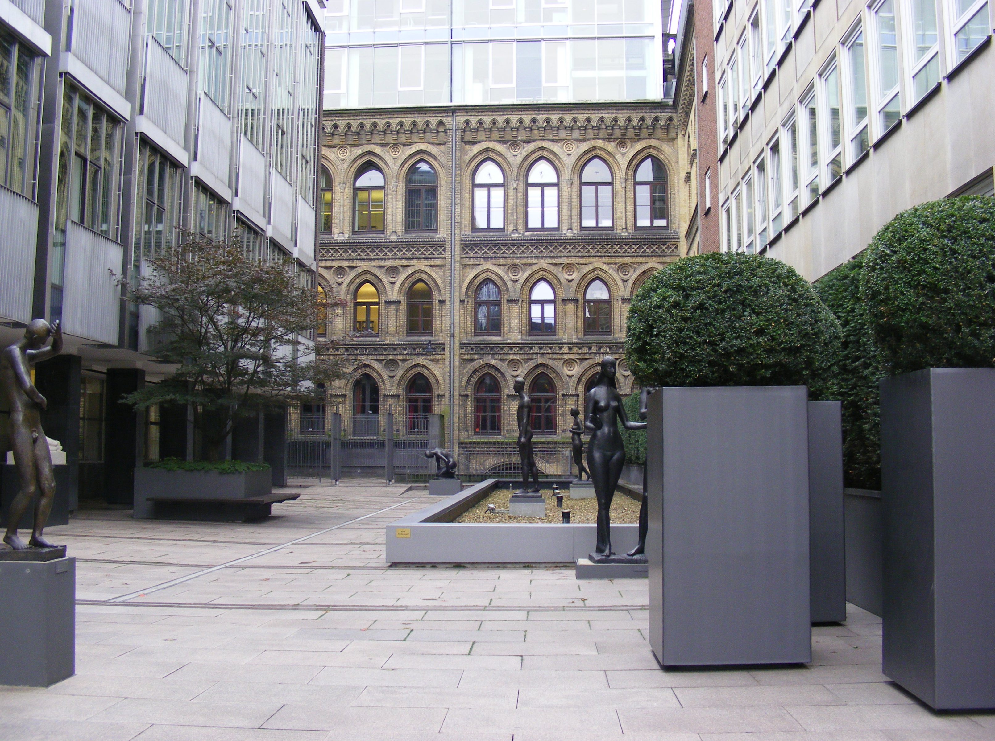 The Skulpturengarten (Sculptures' Garden) beside Bremen's Parliament Building is a plastered court, together with the sculptures containing some high plant pots and a large low pebbled basin.